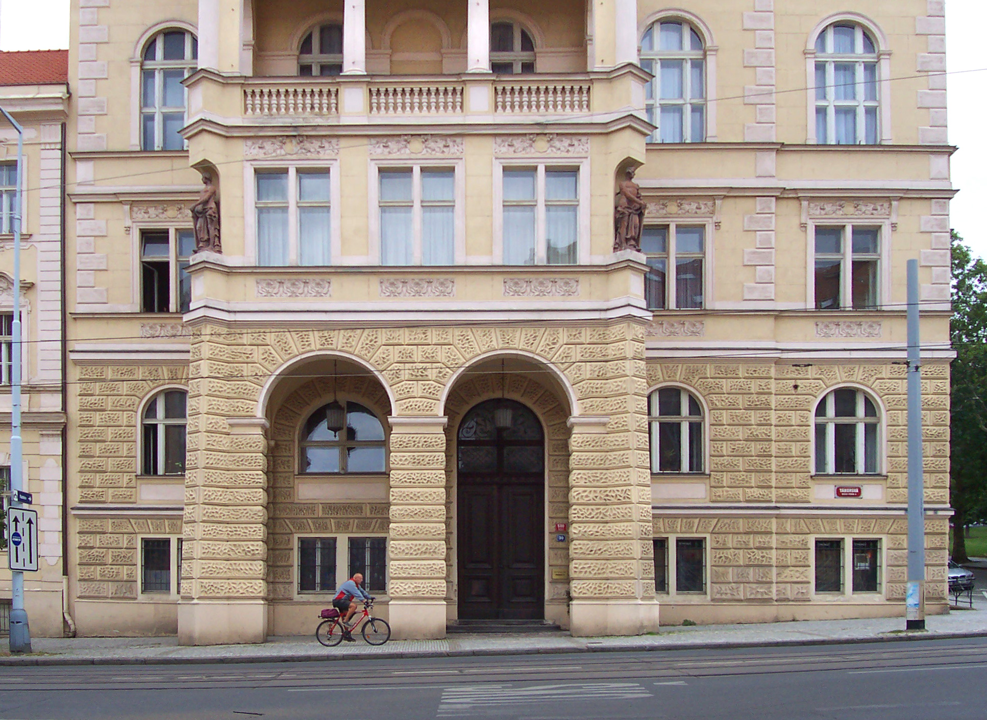 Town Hall of Prague 4 at Nusle, Prague